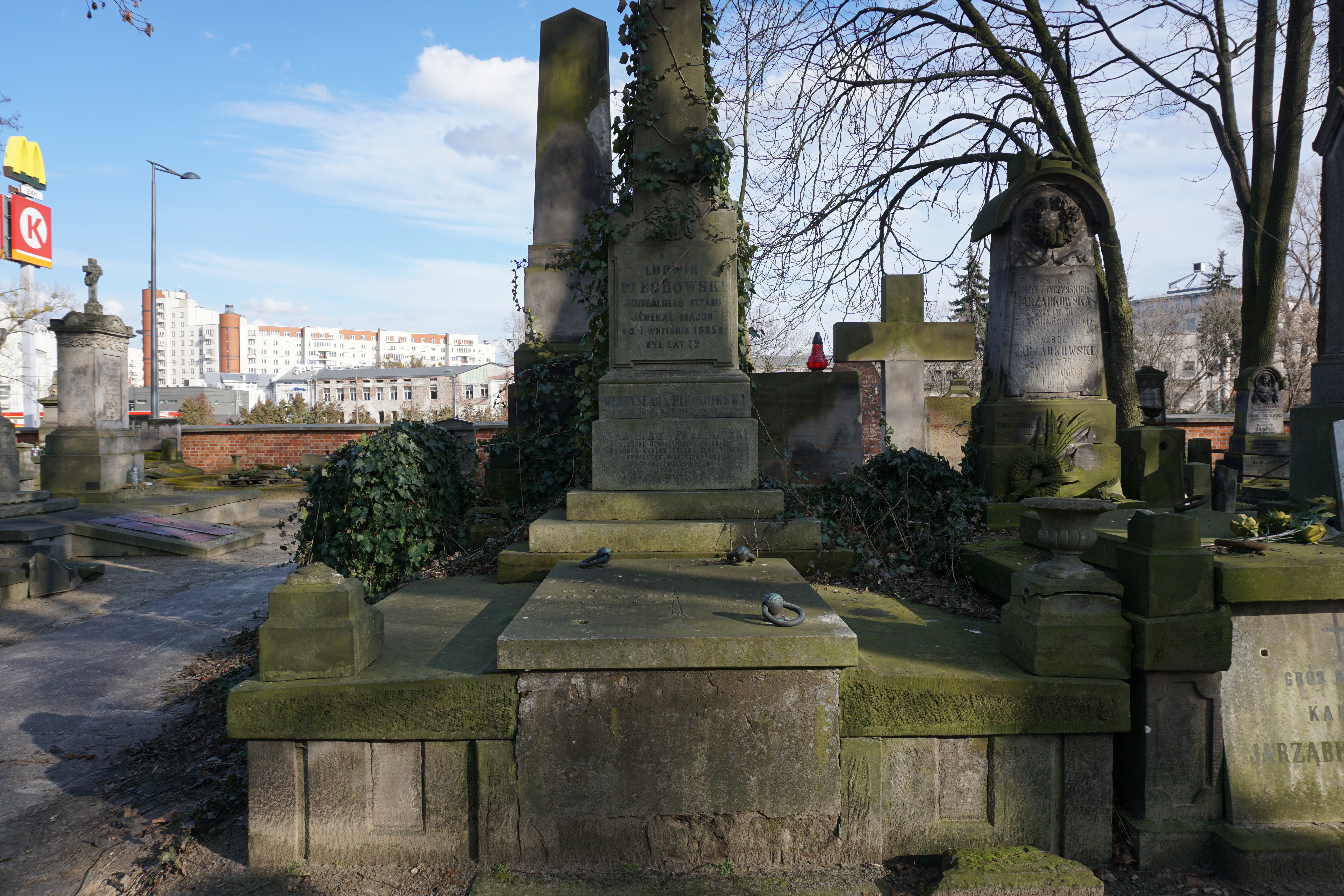 The grave of Władysław Frankowski at the Powązki Cemetery (section 160, row 4, grave 1, 2)